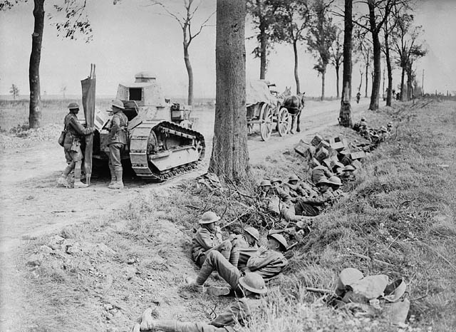 Canadian troops in the vicinity of Arras, along Arras-Cambrai road in September, 1918. Description at National Archives Canada says: "Canadian troops take cover in a ditch alongside the road from Arras to Cambrai. They faced a series of well-protected enemy defences whose efficiency was enhanced by the region’s topographical features. On their left ran the Scarpe River." In the background a Renault FT light tank can be seen.